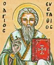 Eustace of Antioch